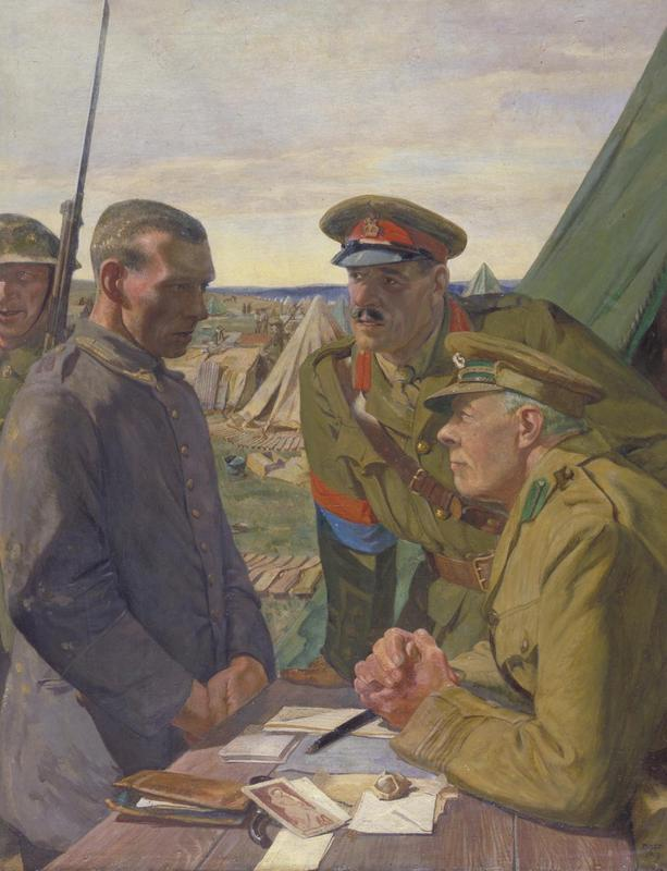 Interrogation image: A German prisoner-of-war is being interrogated by two British officers. One of the officers is seated at a table scattered with the prisoner's papers, while the other rests his arm on the table edge leaning towards the prisoner, who stands before them. A soldier stands guard to the left of the prisoner, his rifle with fixed bayonet over his shoulder. The background shows a camp with tents and duckboards.